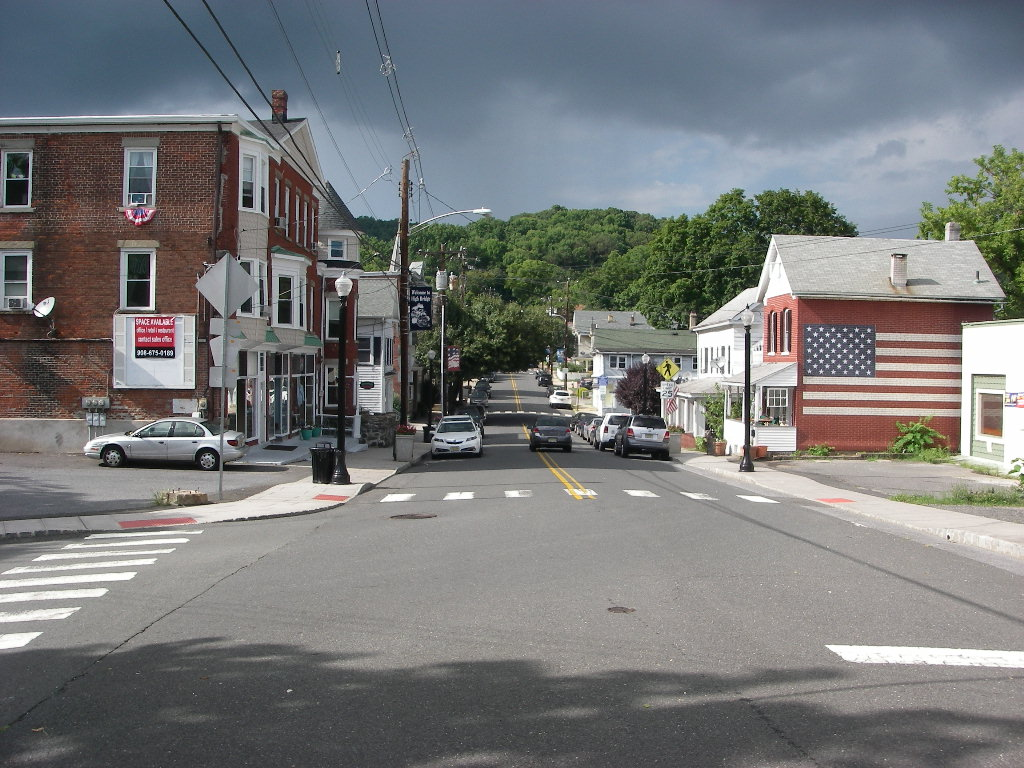 High Bridge NJ main st. same view as 1910